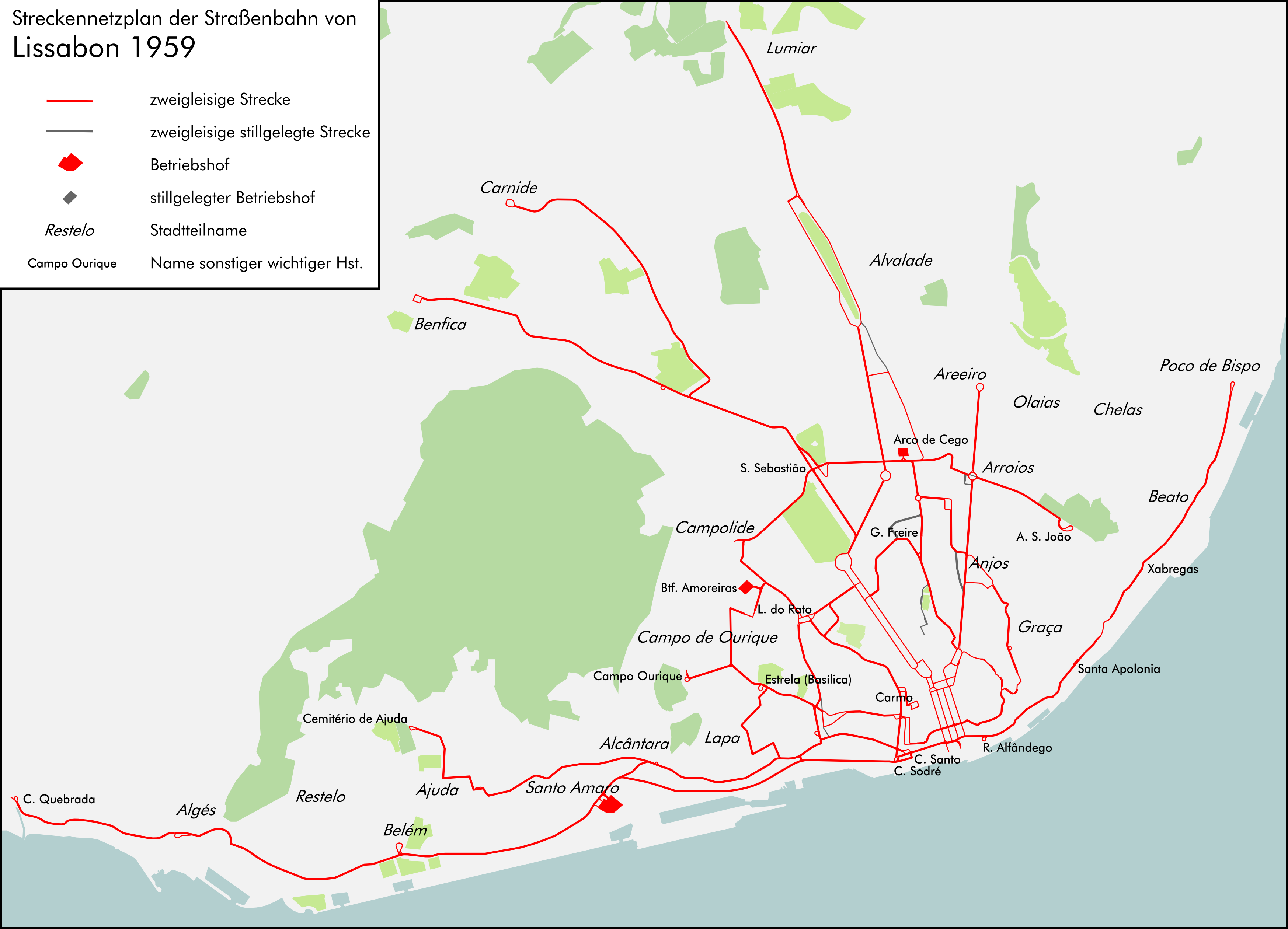 Map of Tram tracks in Lisbon in 1959.